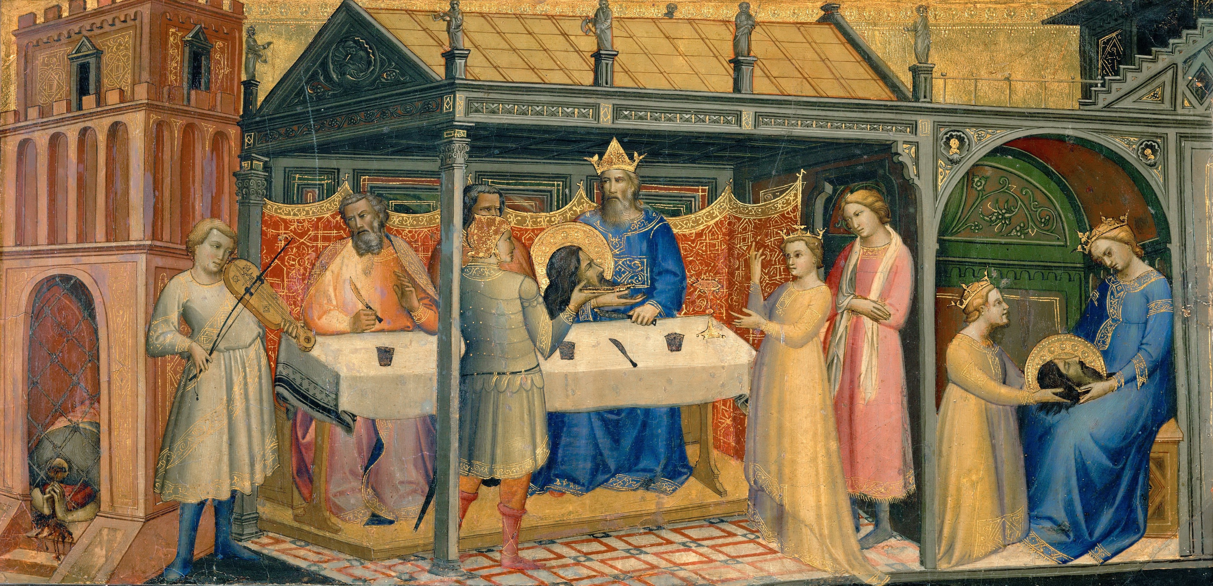 Lorenzo Monaco, Feast of Herod, 1380-90, Louvre, Paris